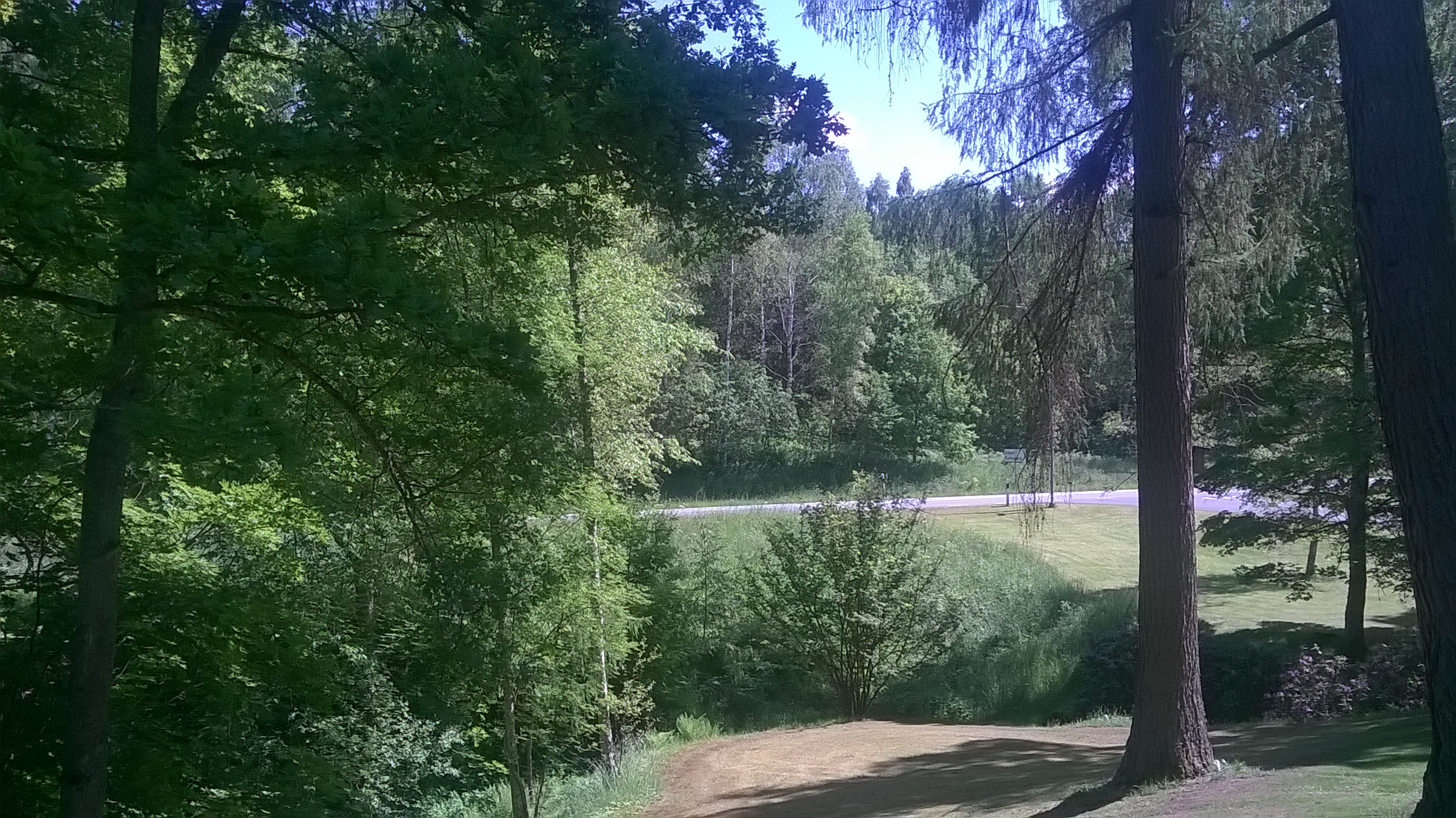 Bråneryds Cemetery in Huskvarna, Sweden 16 June 2015